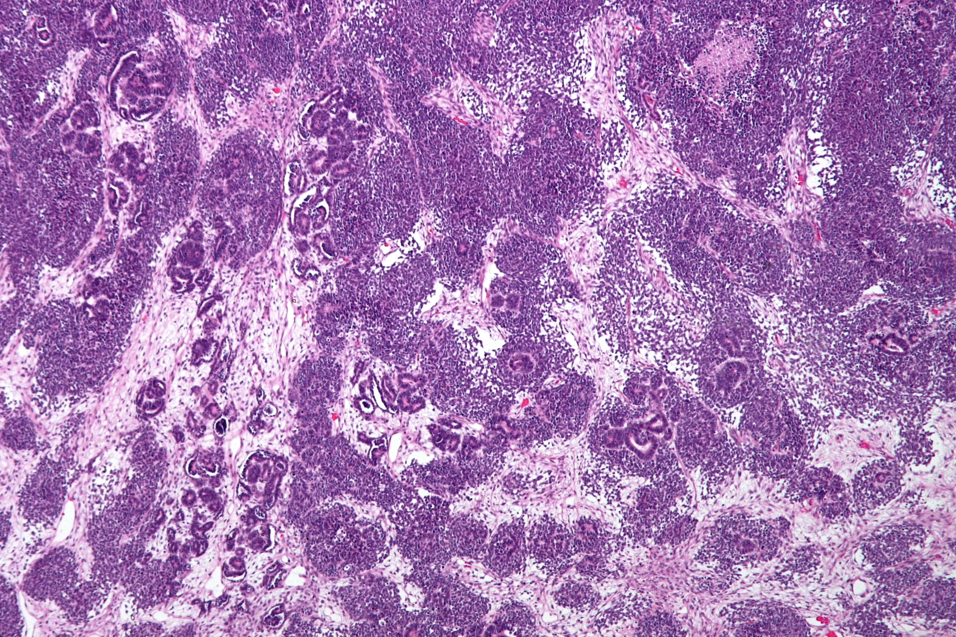 Low magnification micrograph of a Wilms' tumour, also nephroblastoma and Wilms tumour. Surgical excision. H&E stain. Wilms tumour is a type of kidney cancer that is seen predominantly in children. The images show the characteristic three components: Malignant small round (blue) cells ~ 2x the size of resting lymphocyte (blastema component). Tubular structures/rosettes (epithelial component). Loose paucicellular stroma with spindle cells (stromal component). Related images Low mag. Intermed. mag. High mag. Very high mag.